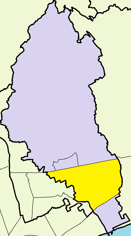 Ayios Stylianos in Agios Athanasios Municipality.